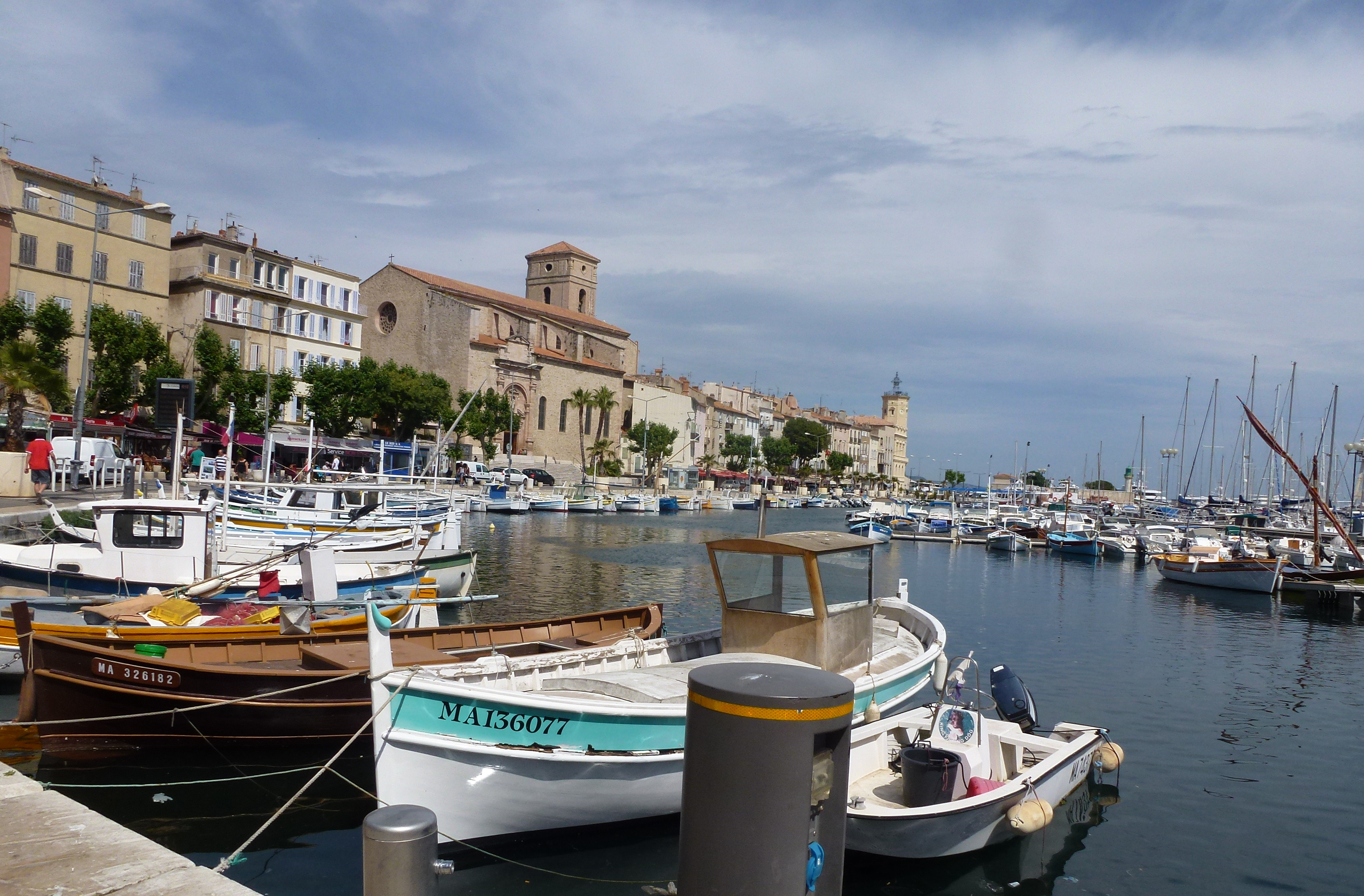 La Ciotat central port